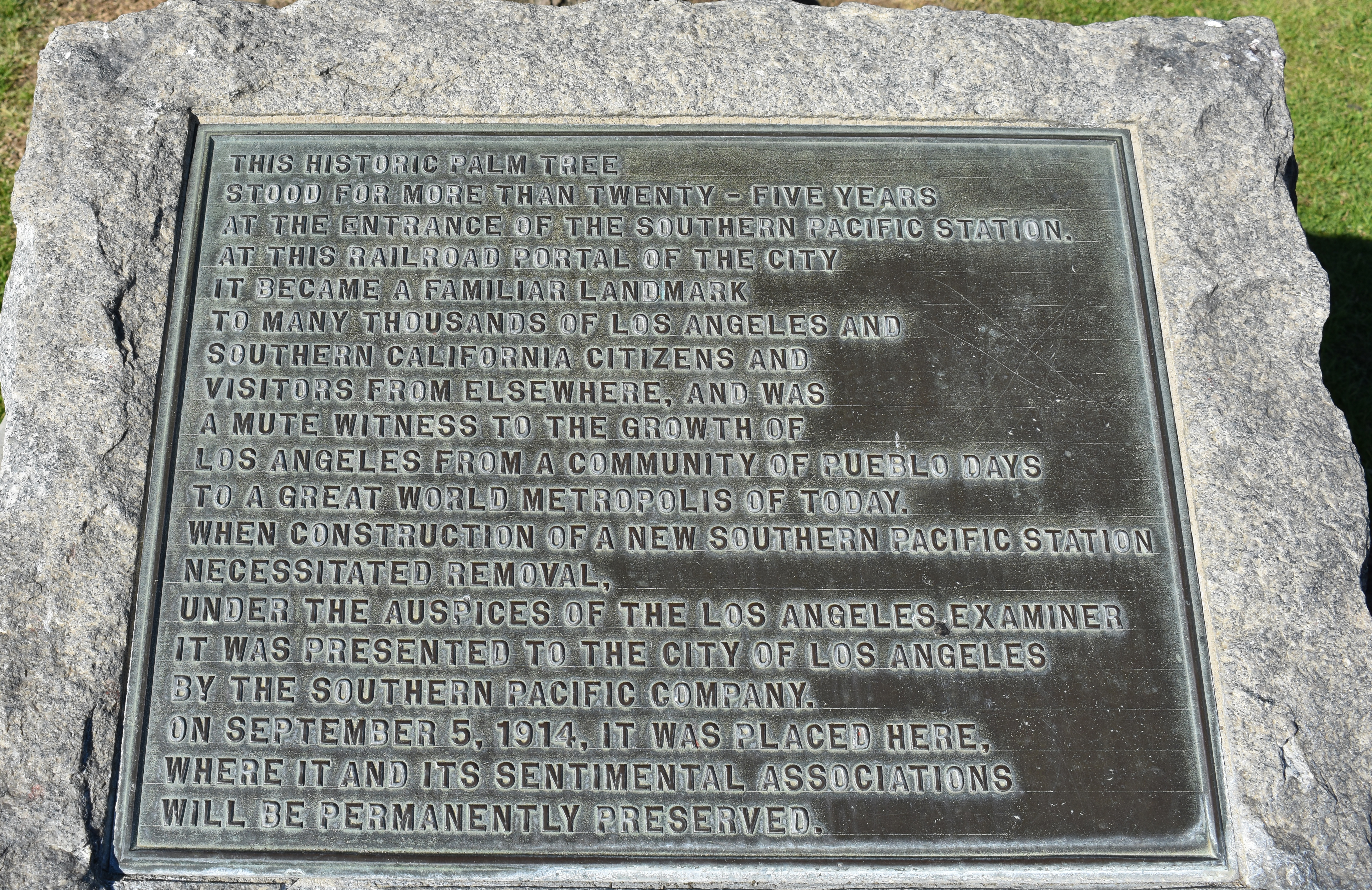 plaque marking historic palm tree, Exposition Park, Los Angeles, California, USA